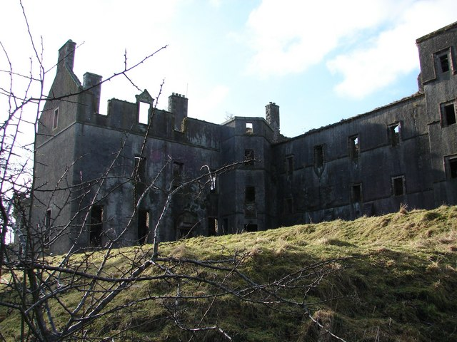 Kenmure Castle E side of the remains of the ‘Palace’ of the Gordons of Lochinvar (C16-C20), it stands on a flat summit of Kenmure Motte. Sadly roofless and derelict since the late 1950s.